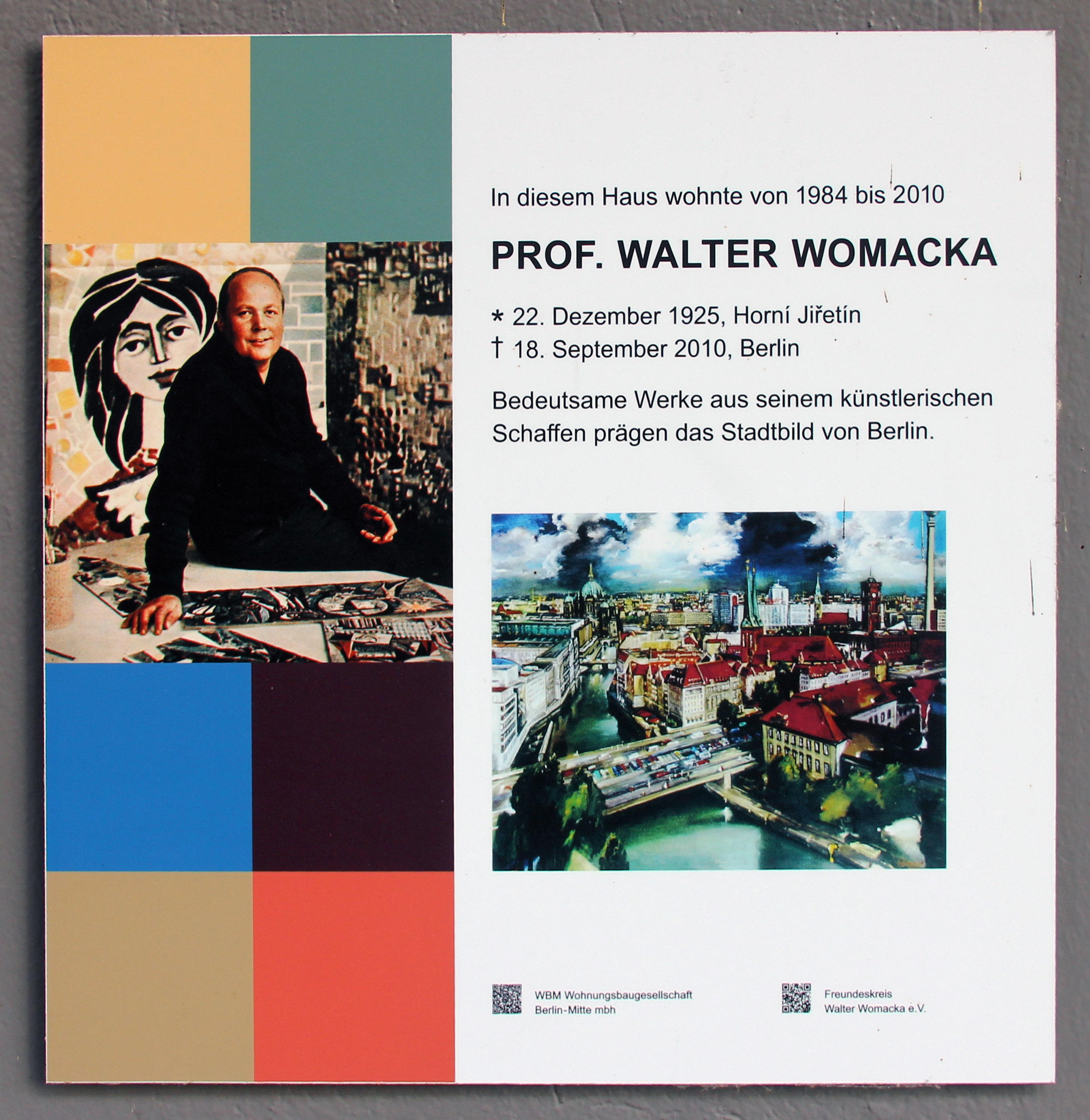 Memorial plaque, Walter Womacka, Wallstraße 90, Berlin-Mitte, Deutschland